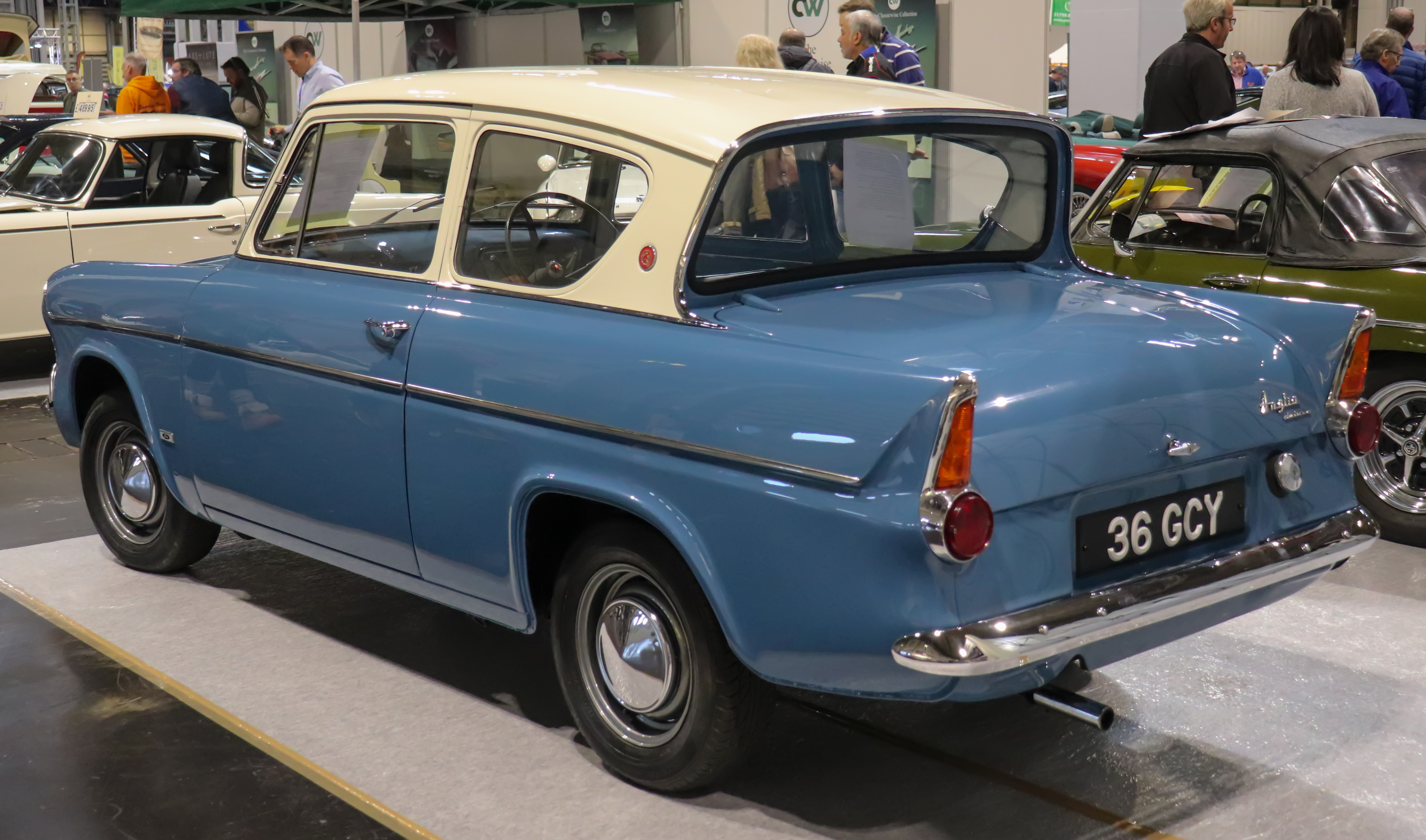 1963 Ford Anglia 105E 1.0 Rear Taken at the NEC Classic Motor Show 2019